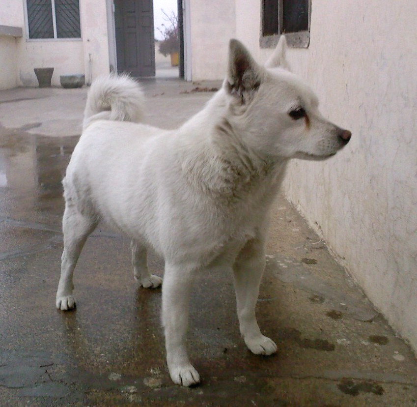 Indian spitz